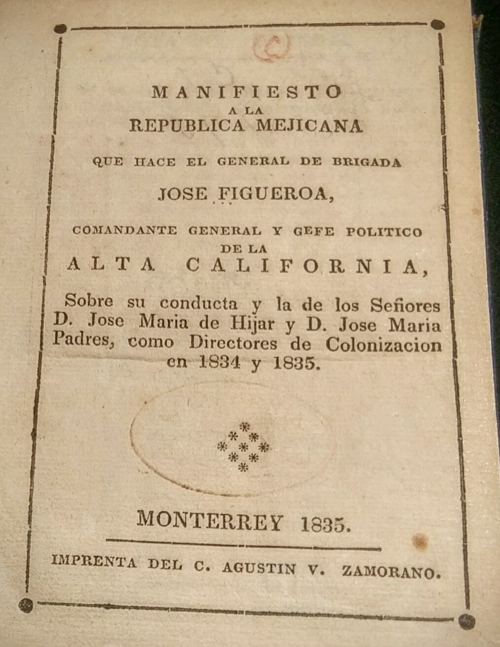 The title page of Jose Figueroa's "Manifesto", published in 1835. This was the first book published in California. Book owned by the California State Library. Photo by Jim Heaphy.